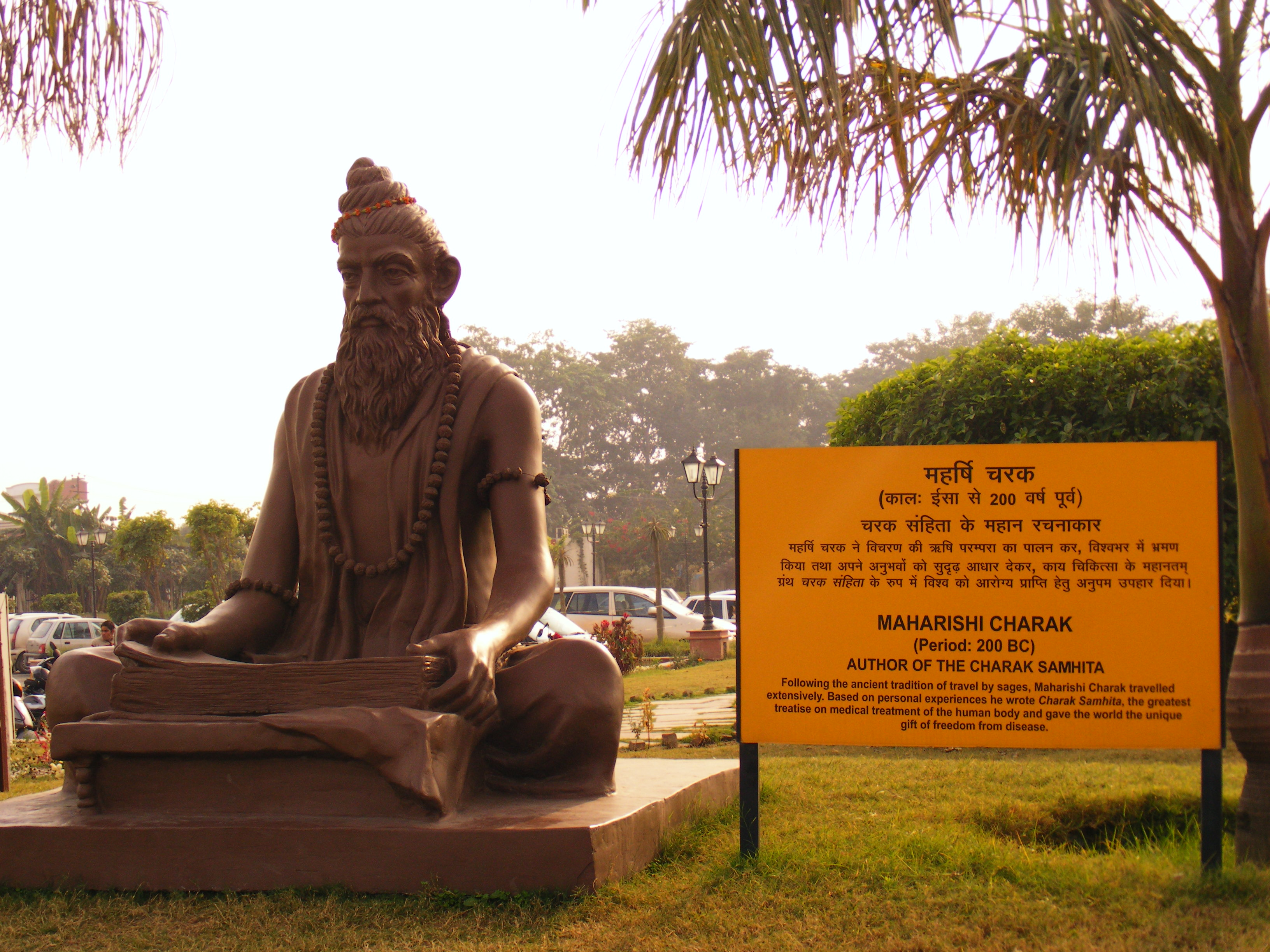 Charaka Statue in the Pantanjali Yogpeeth Campus, Haridwar, India.